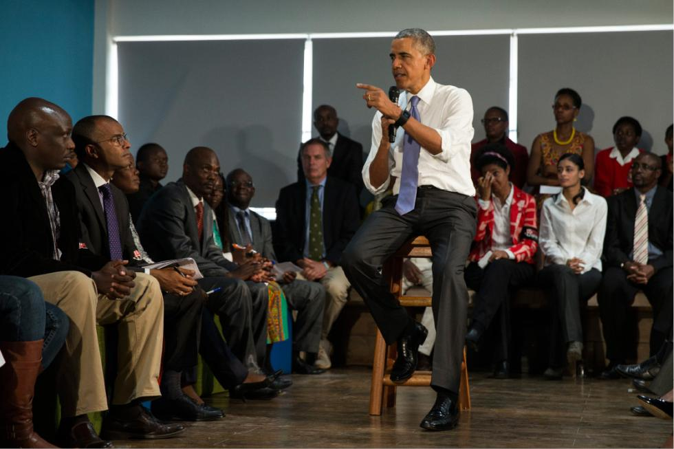 President Barack Obama speaks during a meeting with civil society leaders at the Young African Leaders Initiative Regional Leadership Center in Nairobi. Photo credit: US Embassy Nairobi July 2015, the rest of the world realized what Kenyans already knew -- Kenya is on the move. U.S. President Barak Obama’s visit to Kenya shone the spotlight on his signature initiatives, including Power and Trade Africa and the Young African Leaders Initiative, as well as presidential priorities, such as wildlife conservation, gender equality and civil society.